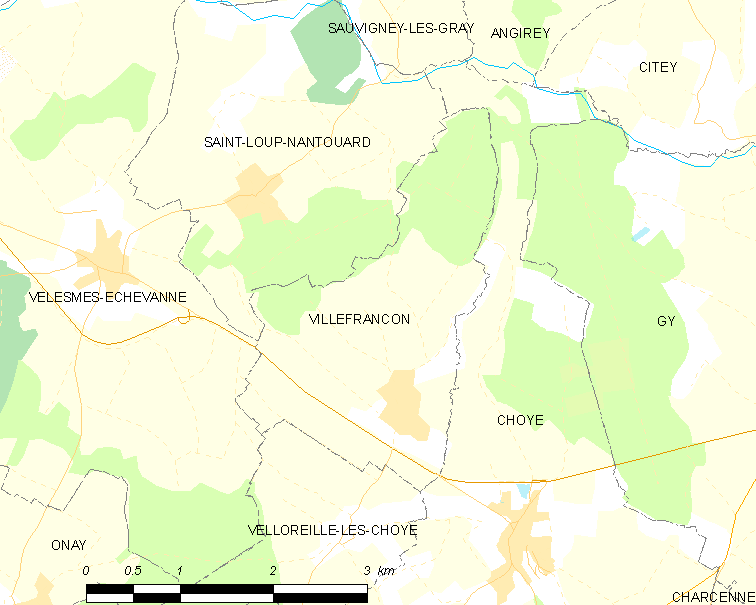 Map of French municipality